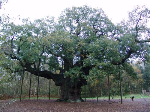 Photo of Robin Hood's Major Oak Tree just outside of Nottingham, England.